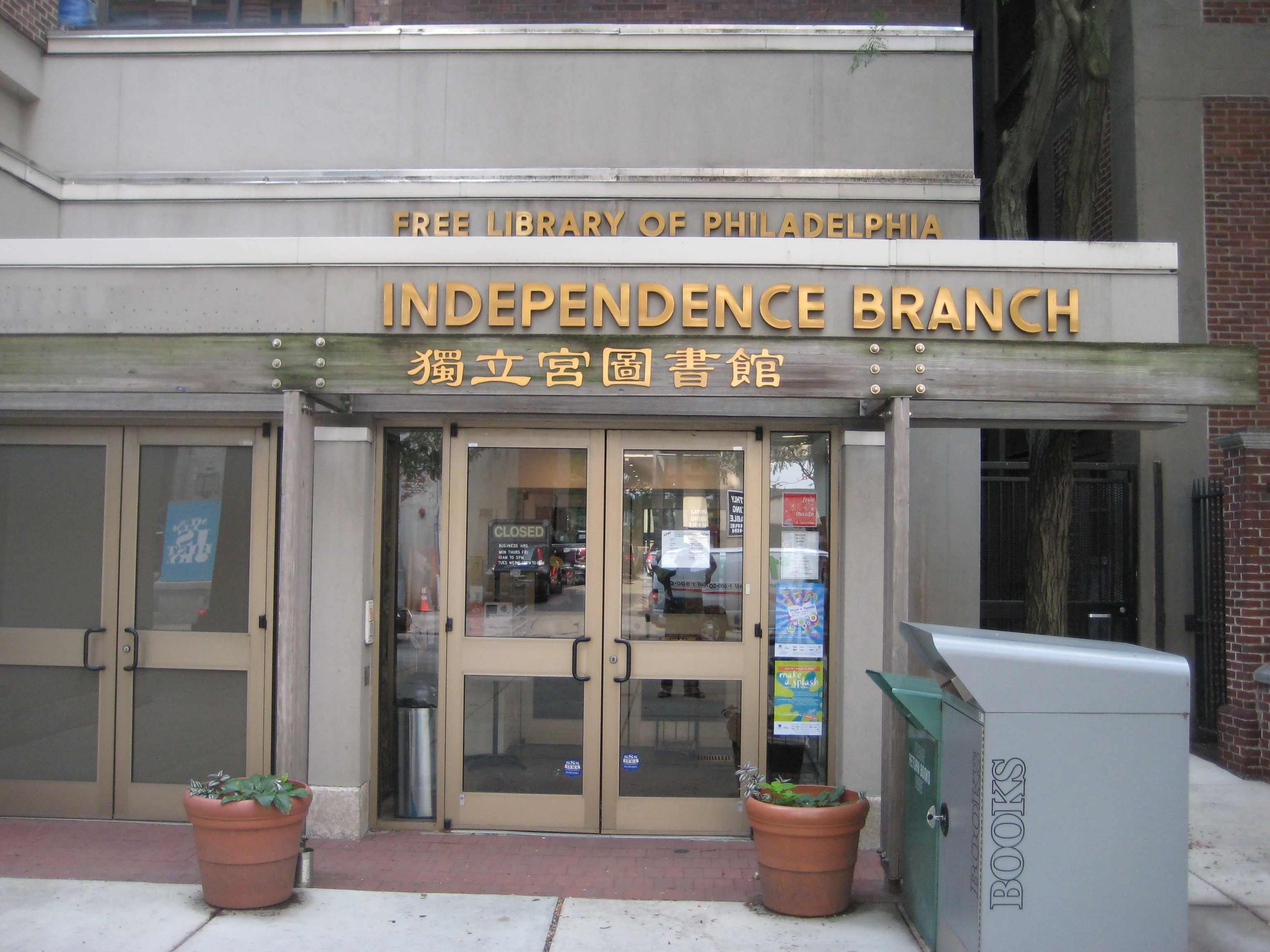 Free Library of Philadelphia Independence Branch Library (T: 獨立宮圖書館, S: 独立宫图书馆, P: Dúlìgōng Túshūguǎn, referring to Independence Hall)